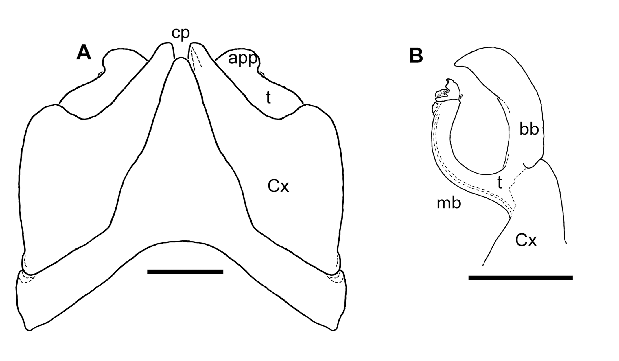 Aphistogoniulus jeekeli (Spirobolida, Pachybolidae). A: anterior gonopods, oral view; B: left posterior gonopod, oral view Abbreviations: app = appendage; bb = basal branch; cp = coxite process; Cx = coxite; mb = main branch; mfr = membranous fringe; St = sternite; t = telopodite; ml = mesal lobe. Scale bars = 1 mm.